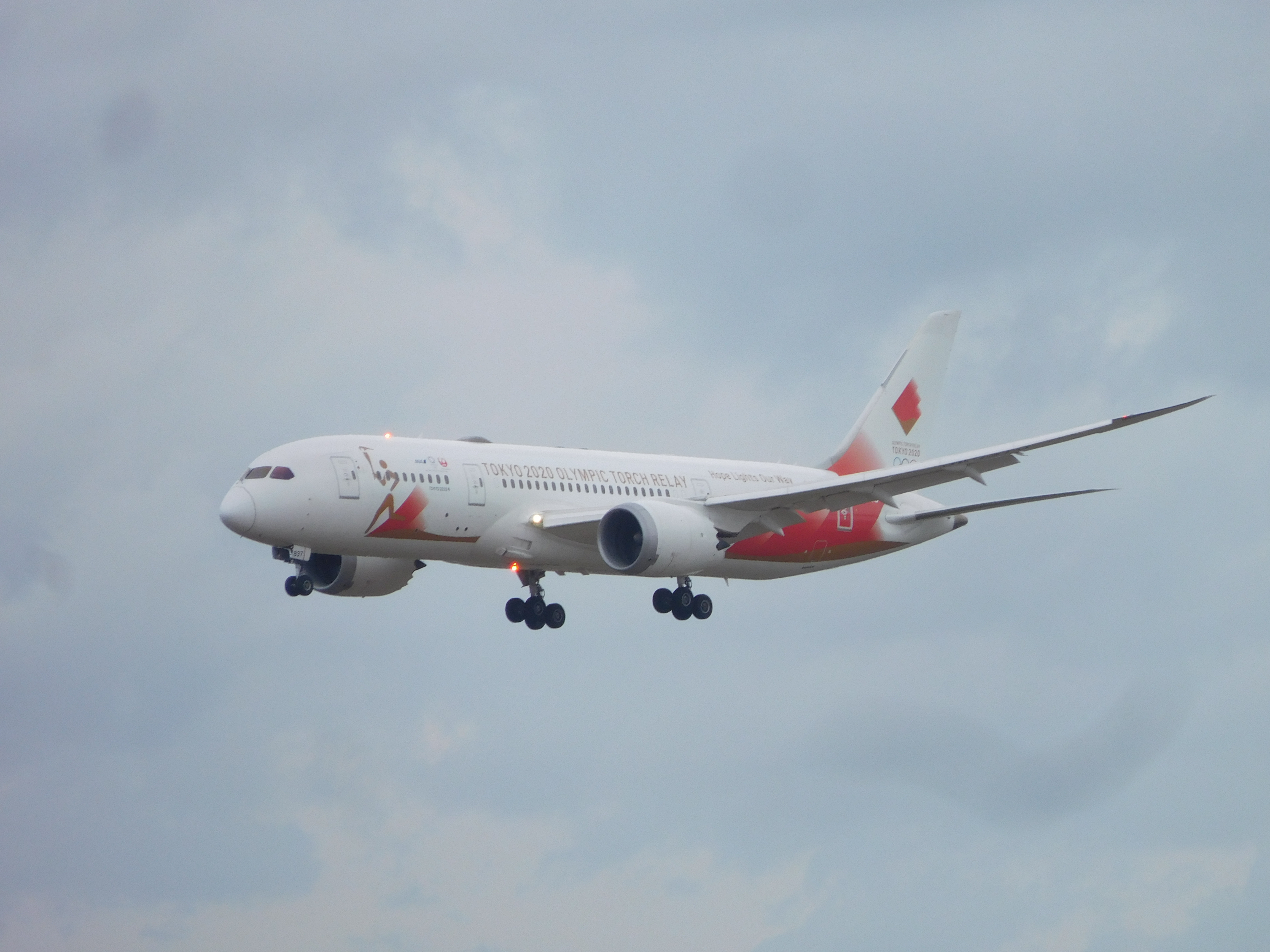 This is an Olympic Flame Aircraft, Boeing 787 Dreamliner JA837J. It was taken at JASDF Matsushima Airbase, Higashimatsushima, Miyagi, Japan.